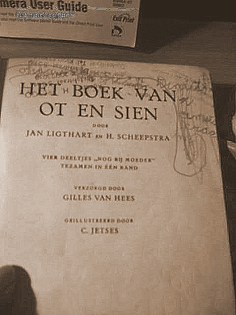 607. My first school reading book "Het boek van Ot en Sien" My children got the same book 30 years later, my son "wrote " on top of the page , he was 4-5 years old, not yet able to read but he loved the pictures. he wanted to "write' what he saw